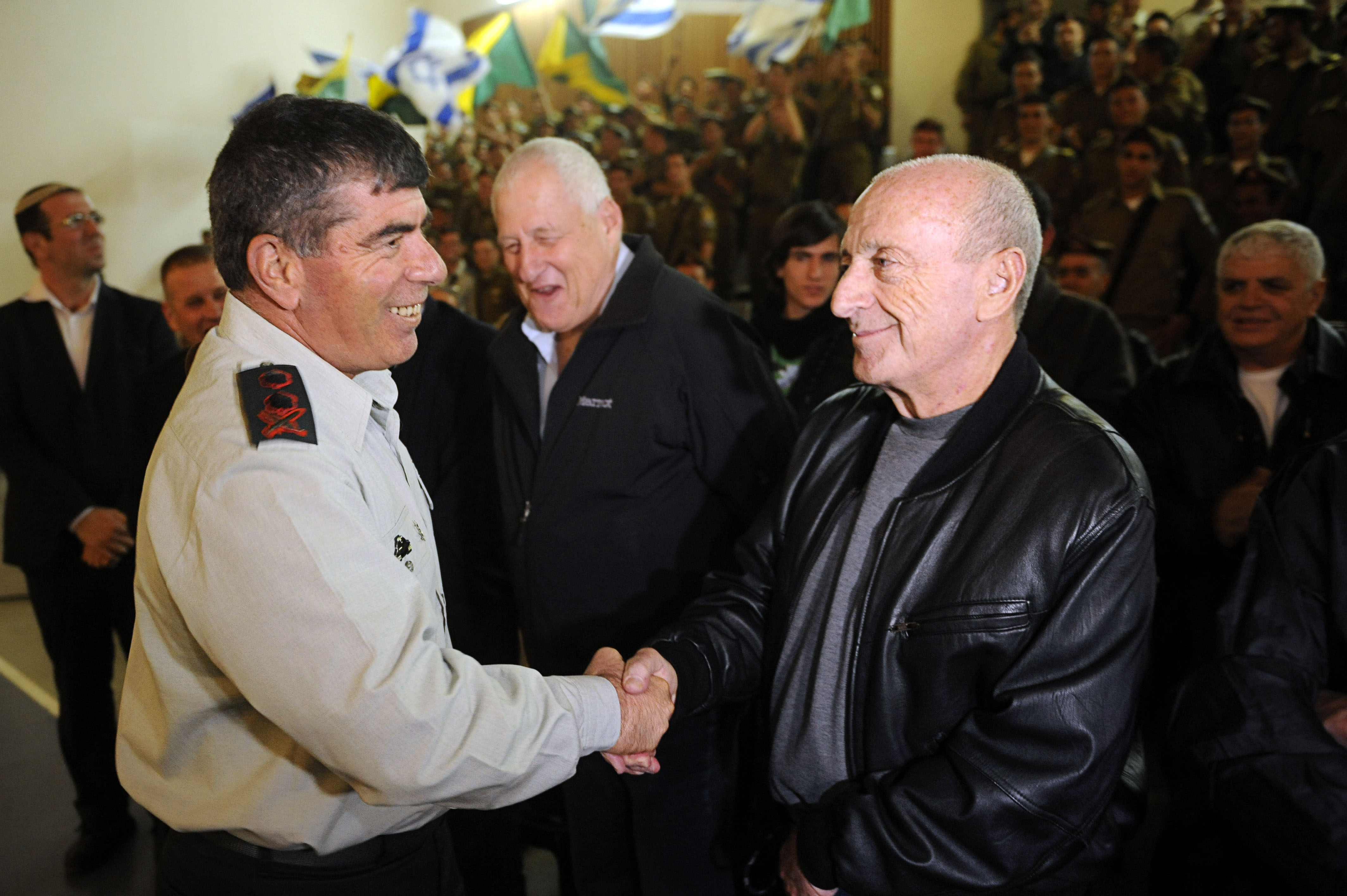 January 20, 2011. The Chief of the General Staff, Lt. Gen. Gabi Ashkenazi, bids farewell to the Golani Brigade, where he served as a young soldier. "The Golani Brigade taught be how to be a warrior and a command, taught me about determination and courage," thus said Lt. Gen. Ashkenazi during his final visit to the brigade last Thursday, on his farewell rounds before preparing to leave his position. During the visit, which was held at the brigade's training base, key figures from Lt. Gen. Ashkenazi's days as a soldier took the stage, among them: the Brigade Commander in the time when the Chief of Staff was the brigade's Operations Officer, and his personal secretary when he had been Brigade Commander. The Chief of Staff added: "The Golani Brigade is a brigade which just doesn't know how to stop, and is tasked with the most difficult missions. Golani is not just a legacy, but mostly a story of people who sacrificed their lives for the sake of the country, some of them who are no longer with us today." Pictured: Lt. Gen. Ashkenazi shaking the hand of Uri Sagi ביקור פרידה של הרמטכ"ל מחטיבת גולני. "חטיבת גולני לימדה אותי להיות לוחם ומפקד, לימדה אותי על נחישות ואומץ לב." כך אמר הרמטכ"ל, רא"ל גבי אשכנזי ביום ה' במהלך ביקור פרידה מהחטיבה בה צמח, חטיבת גולני וזאת במסגרת סבב ביקורי הפרידה מיחידות צה"ל השונות. במהלך הביקור, שנערך בבסיס האימונים החטיבתי, הועלו לבמה בזה אחר זה דמויות מפתח מזמן שירותו של רא"ל אשכנזי בחטיבה בינהן: מי שהיה מח"ט גולני בזמן שרא"ל אשכנזי שימש כקצין המבצעים החטיבתי ומי ששימשה כפקידה האישית של רא"ל אשכנזי בעת ששימש כמח"ט גולני. עוד אמר הרמטכ"ל: "החטיבה היא חטיבה שאינה יודעת לעצור ומקבלת את המשימות הקשות ביותר. חטיבת גולני אינה רק סיפור של מורשת, אלא בעיקר סיפור על אנשים שנתנו את חייהם למען המדינה, אנשים מופלאים שחלקם אינם היום." בתמונה: הרמטכ"ל לוחץ את ידו של אורי שגיא